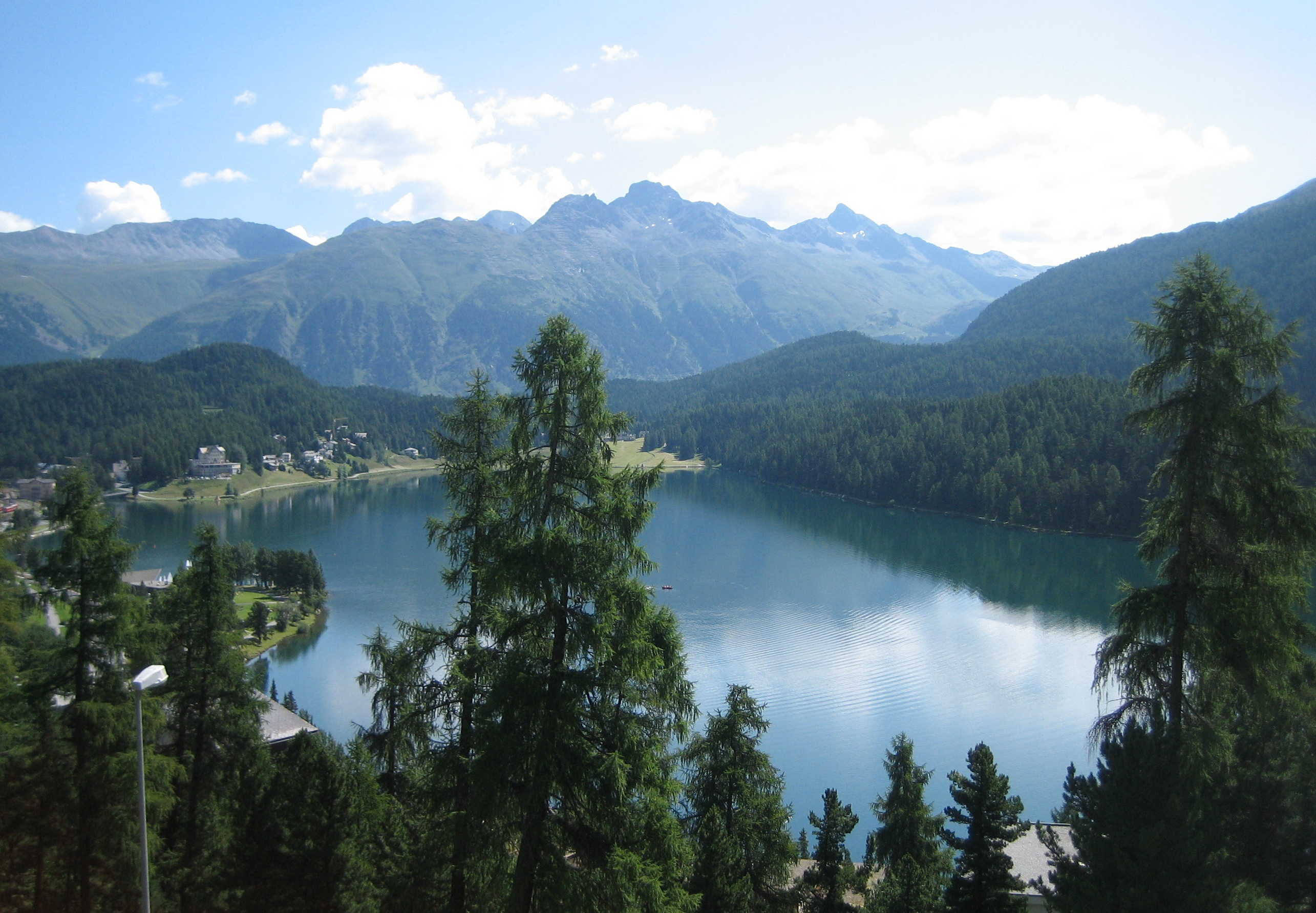 Lake St. Moritz Rumantsch: Lej da San Murezzan